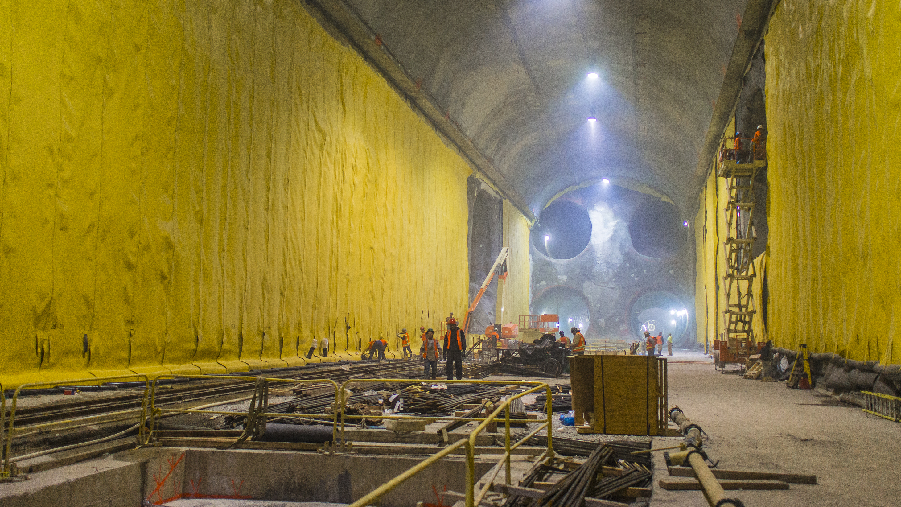 Progress on the Grand Central Terminal side of the East Side Access Project as of January 13, 2014. Photo: MTA Capital Construction / Rehema Trimiew